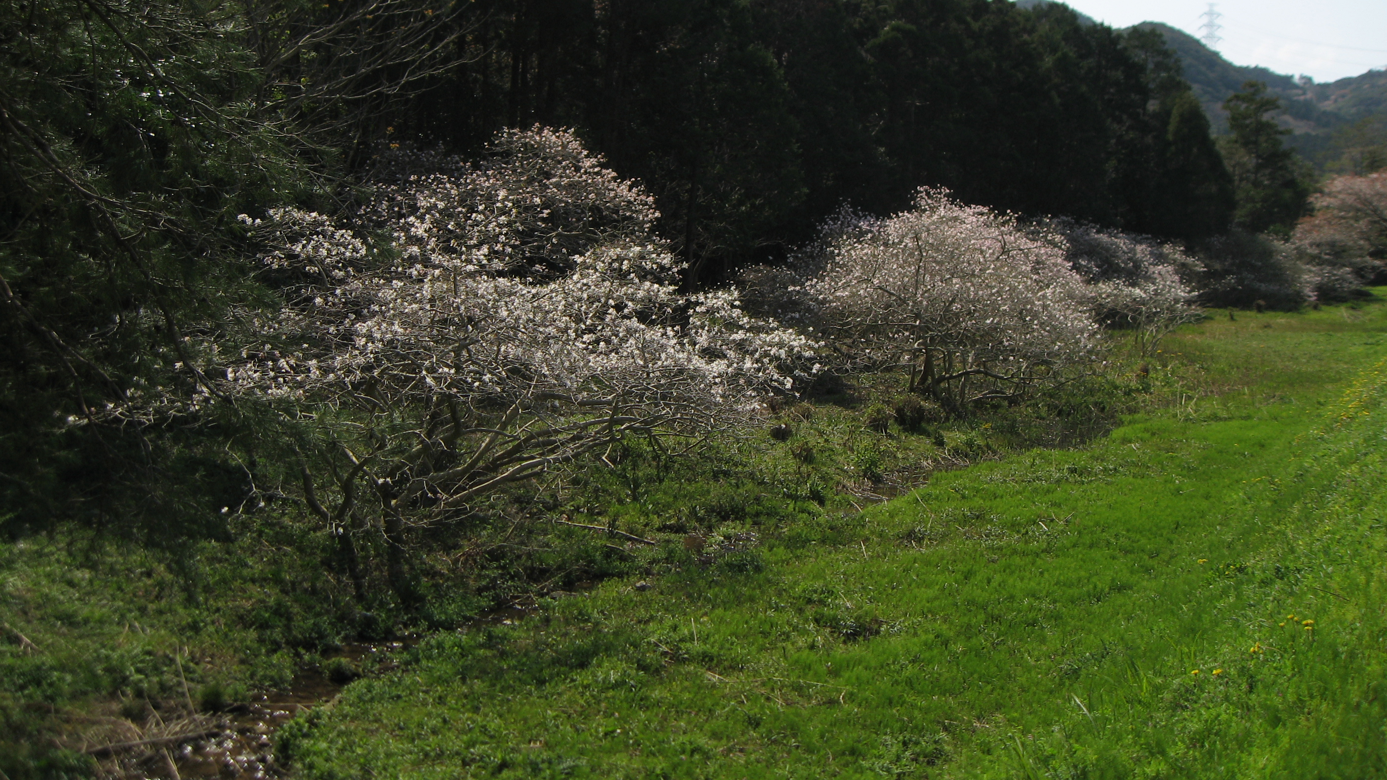 Magnolia stellata at Ikawazu (Natural monument of Aichi Prefecture), Ikawazu, Tahara, Aichi, Japan.